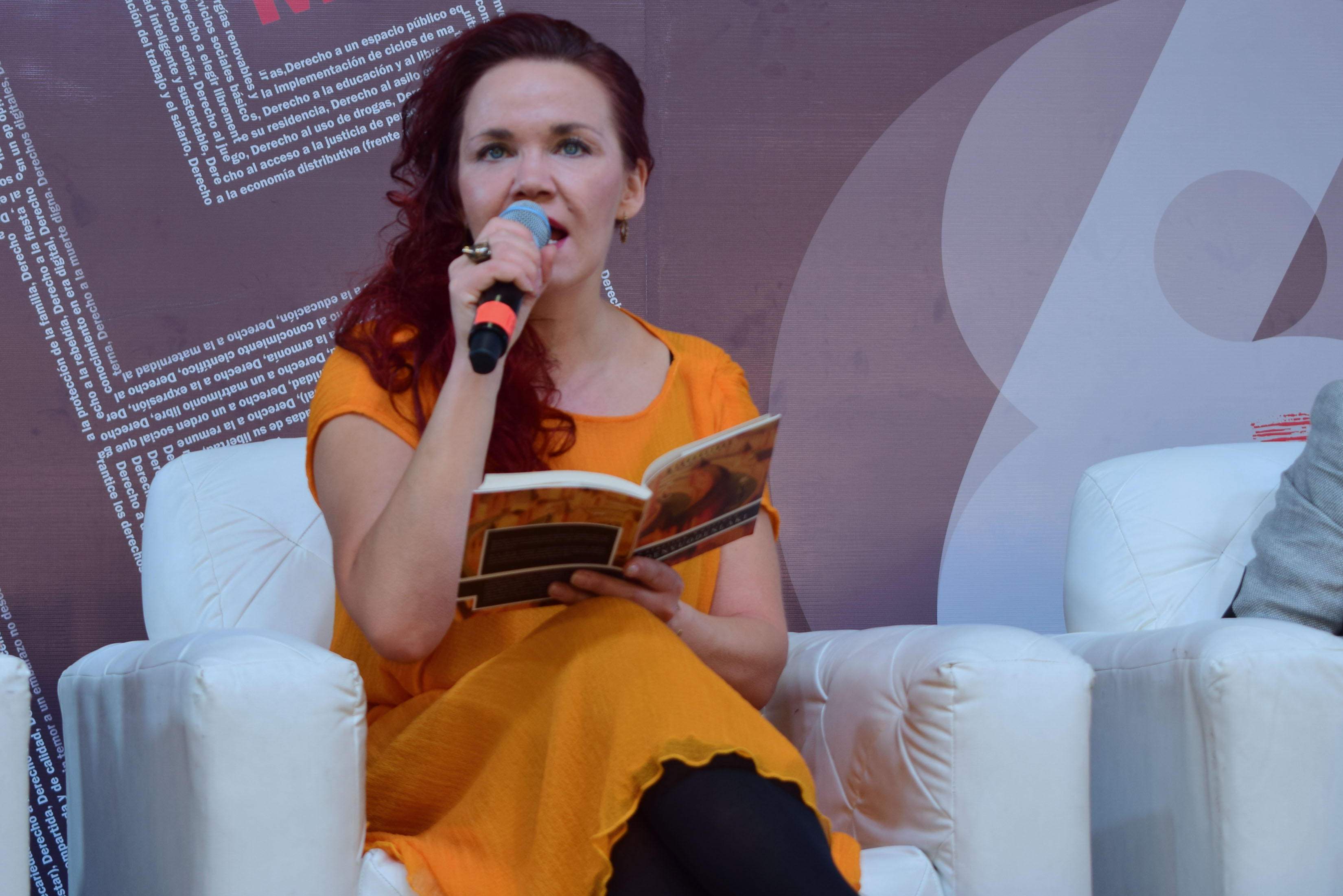 Kateriina Vuorinen on a public reading in Mexico City. Friday, 19 October, 2018. Picture by Zoe Gutierrez / Secretaria de Cultura de la CDMX.